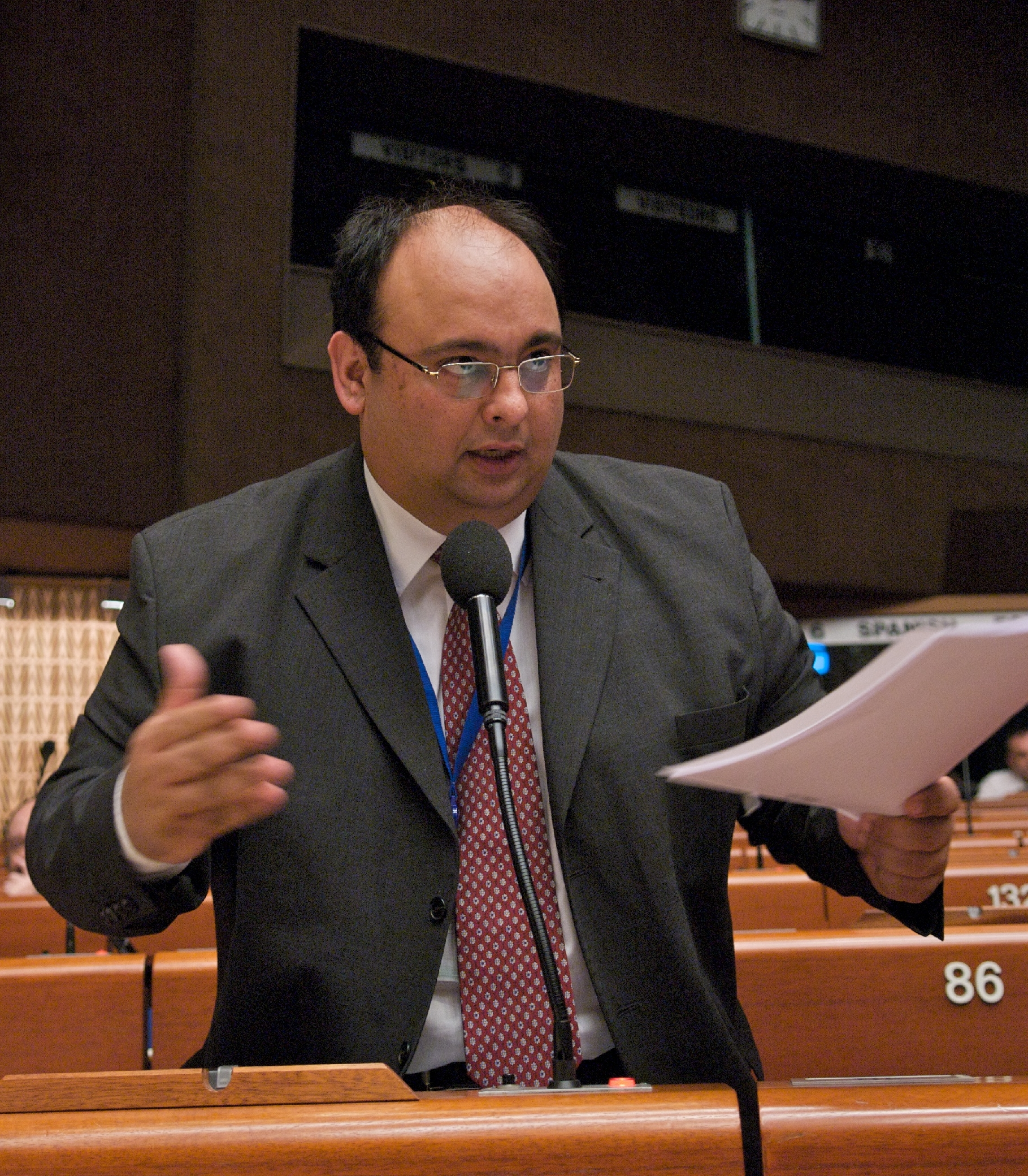 Picture of Ian Micallef